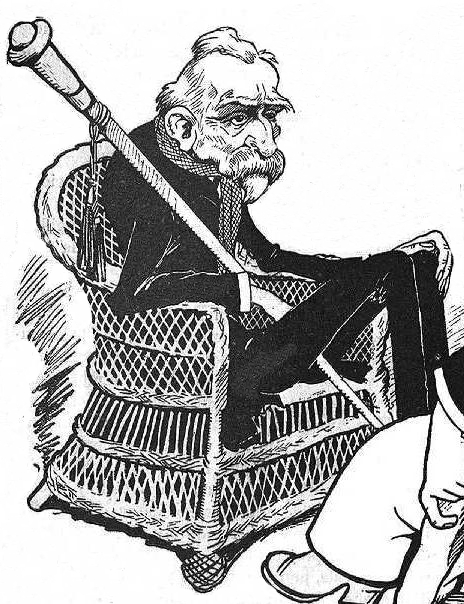 Joan Coll i Pujol, in La Esquella de la Torratxa magazine of 2.7.1909